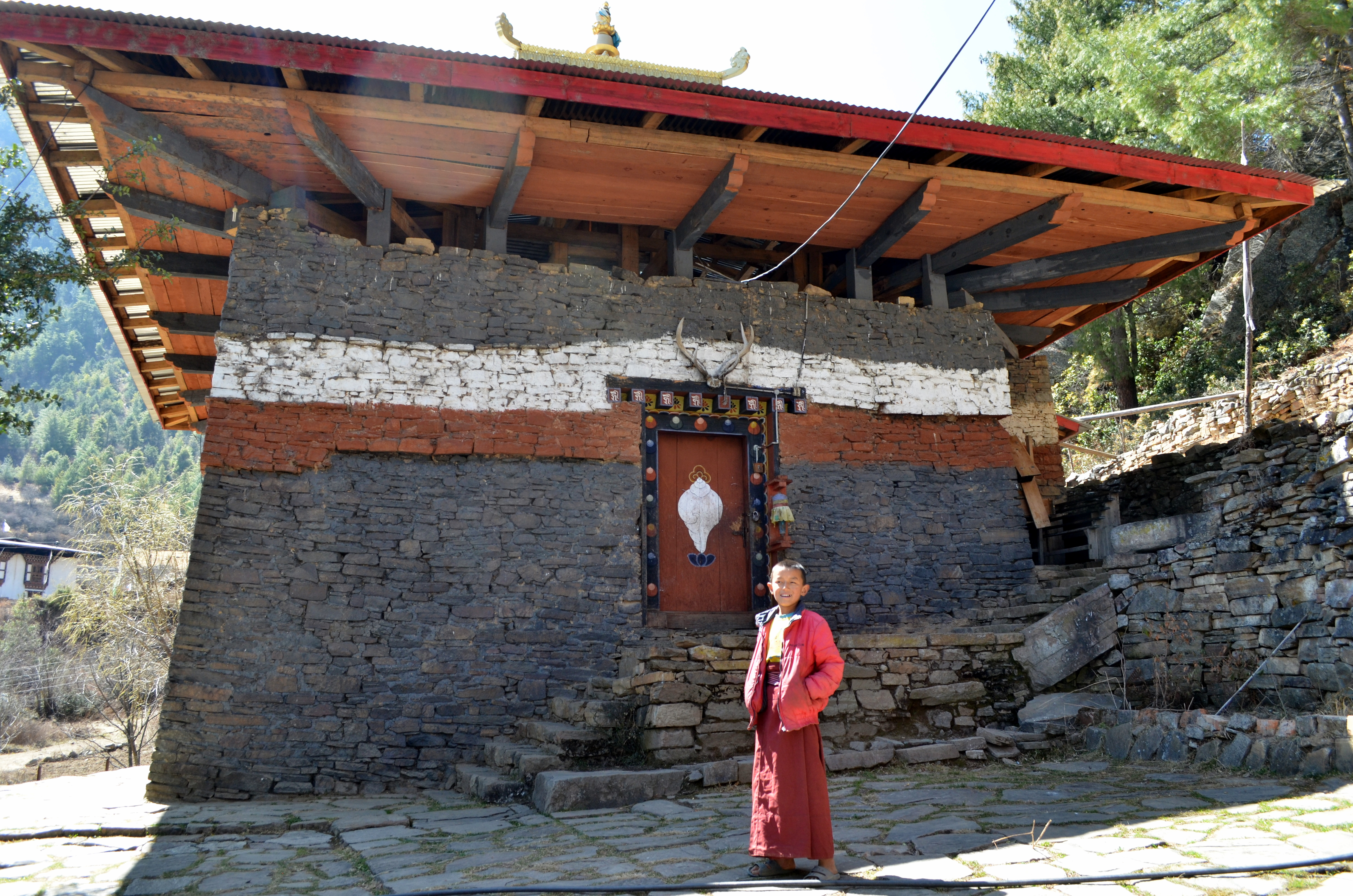 Lhakhang Nagpo (the Black Temple) in Üsu (Uesu) Gewog, Haa District, Bhutan. Believed to have originally been established in the 7th century, during the time of Songtsän Gampo. Inside the temple is a small pool associated with the Buddhist protector Mahākāla.